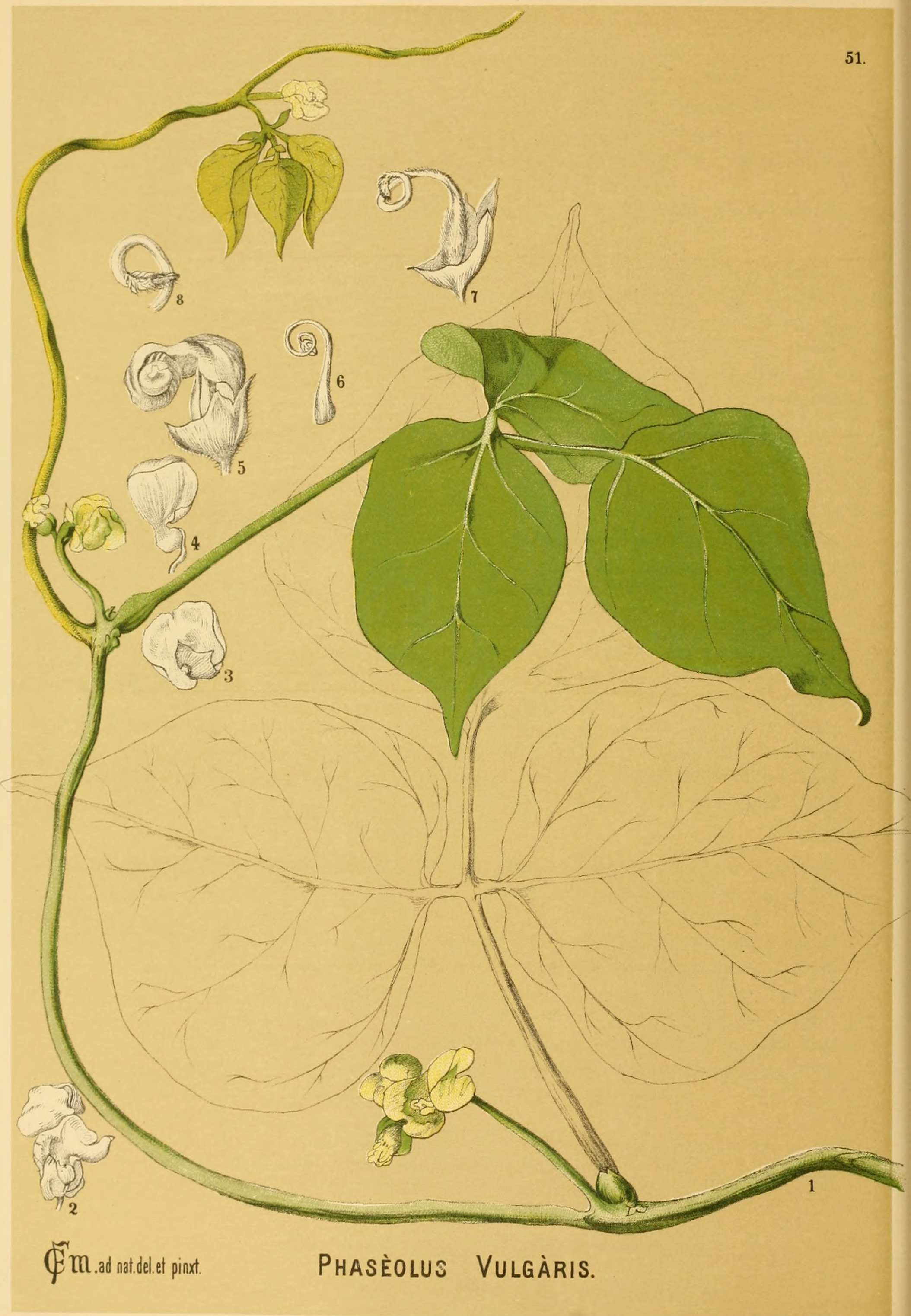 Title: American medicinal plants; : an illustrated and descriptive guide to the American plants used as homopathic remedies : their history, preparation, chemistry, and physiological effects. Year: 1887 (1880s) Authors: Millspaugh, Charles Frederick, 1854-1923 Subjects: Botany, Medical; Botany; Botany; Botany Publisher: New York ; Philadelphia : Boericke & Tafel. Text Appearing Before Image: ' Text Appearing After Image: '